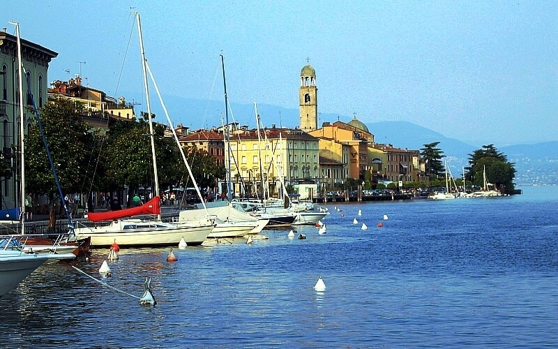 Salò - Lake Garda - Lombardy, Italy